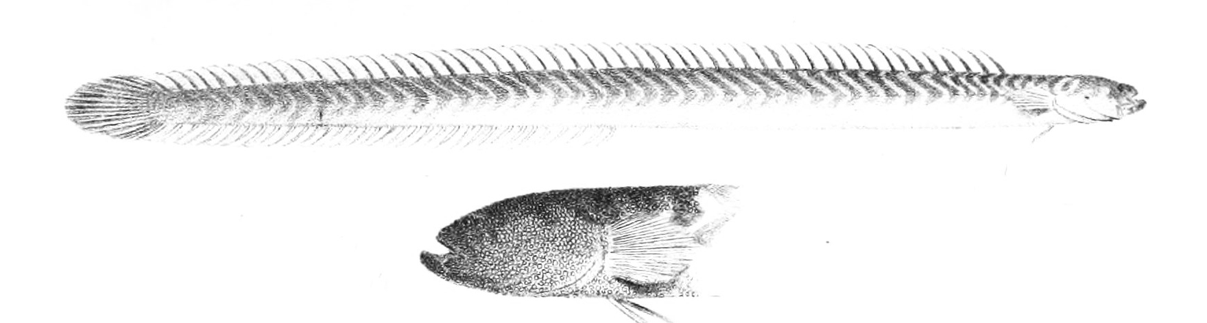 Banded worm goby (Microdesmus dipus) from lateral with detail of head